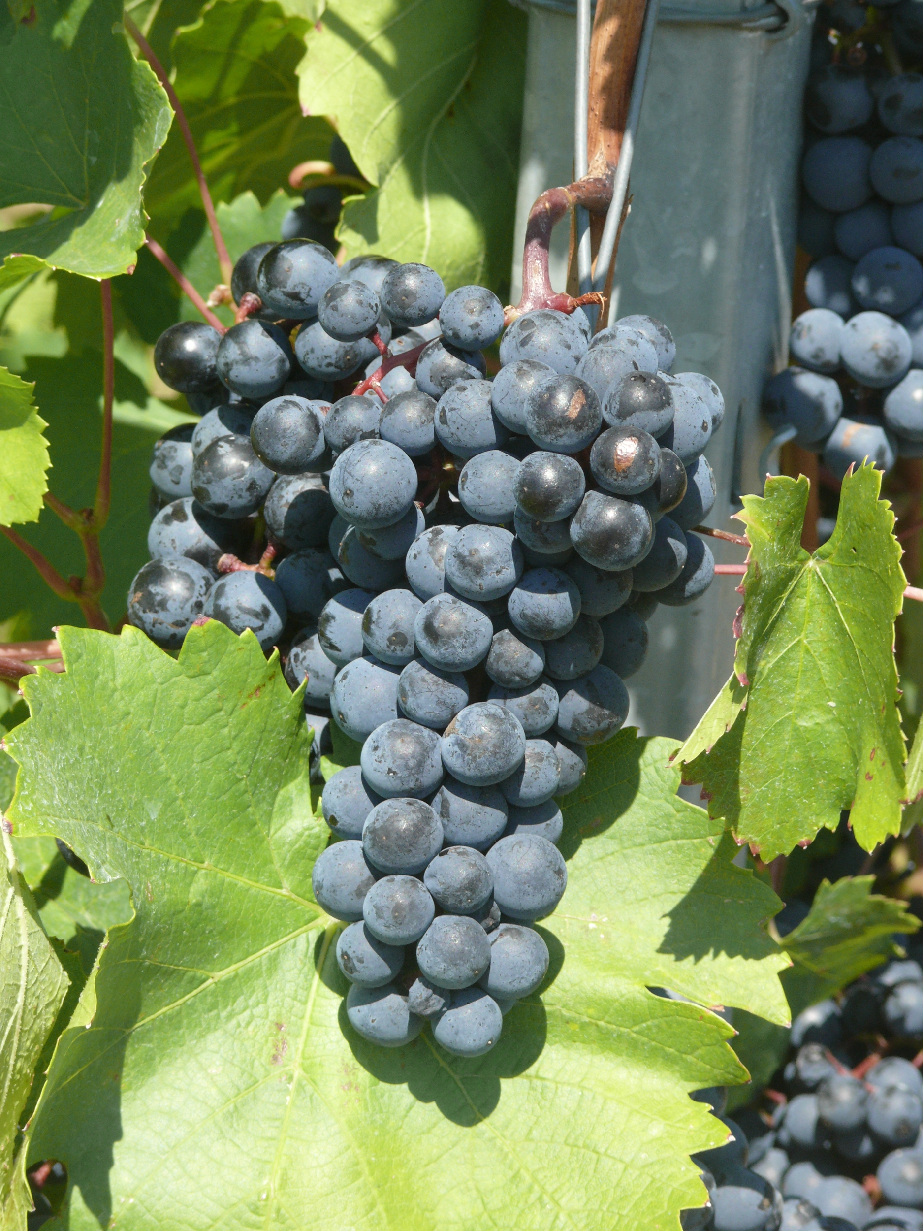 Acolon, Tauberland